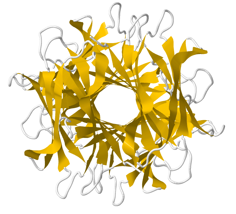 PSEUDOMONAS AERUGINOSA LECTIN II (PA-IIL) COMPLEXED WITH LACTO-N-NEO-FUCOPENTAOSE V(LNPFV)